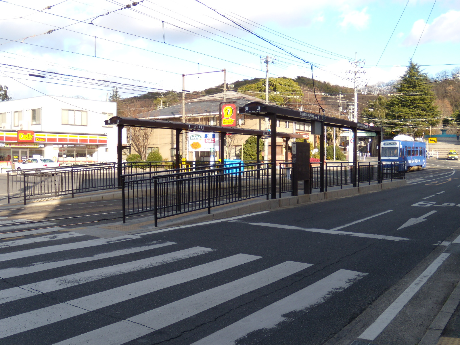 Okayama Electric Tramway Higashiyama Station (Okayama prefectural road No.28)